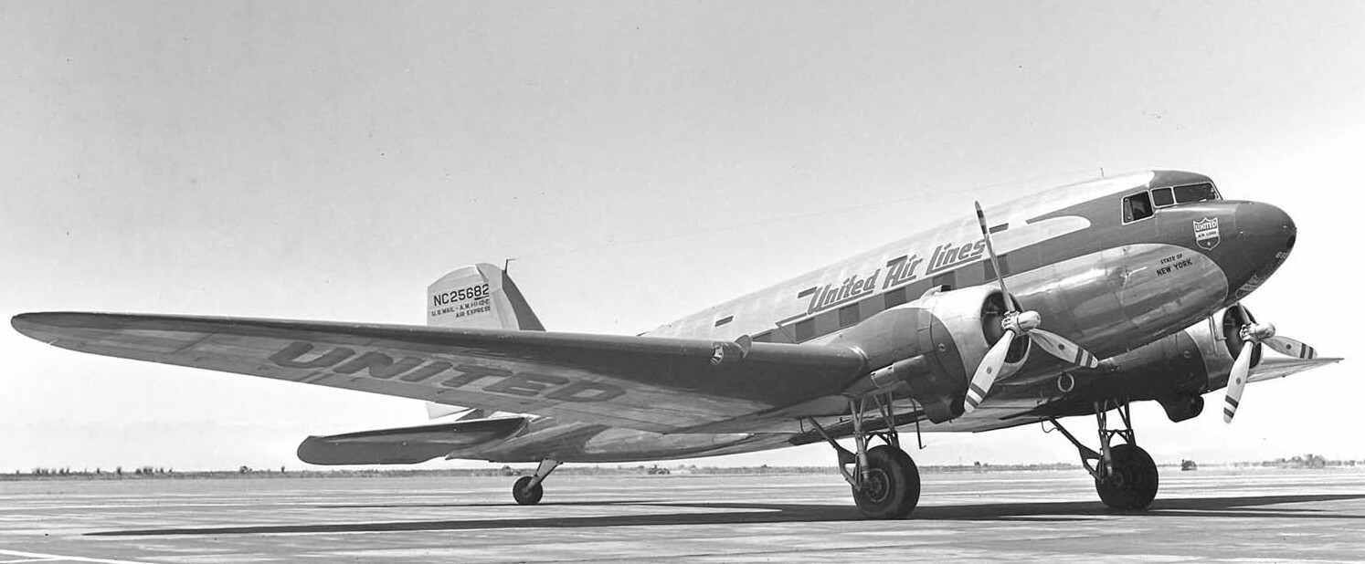 DSTunitedOAK